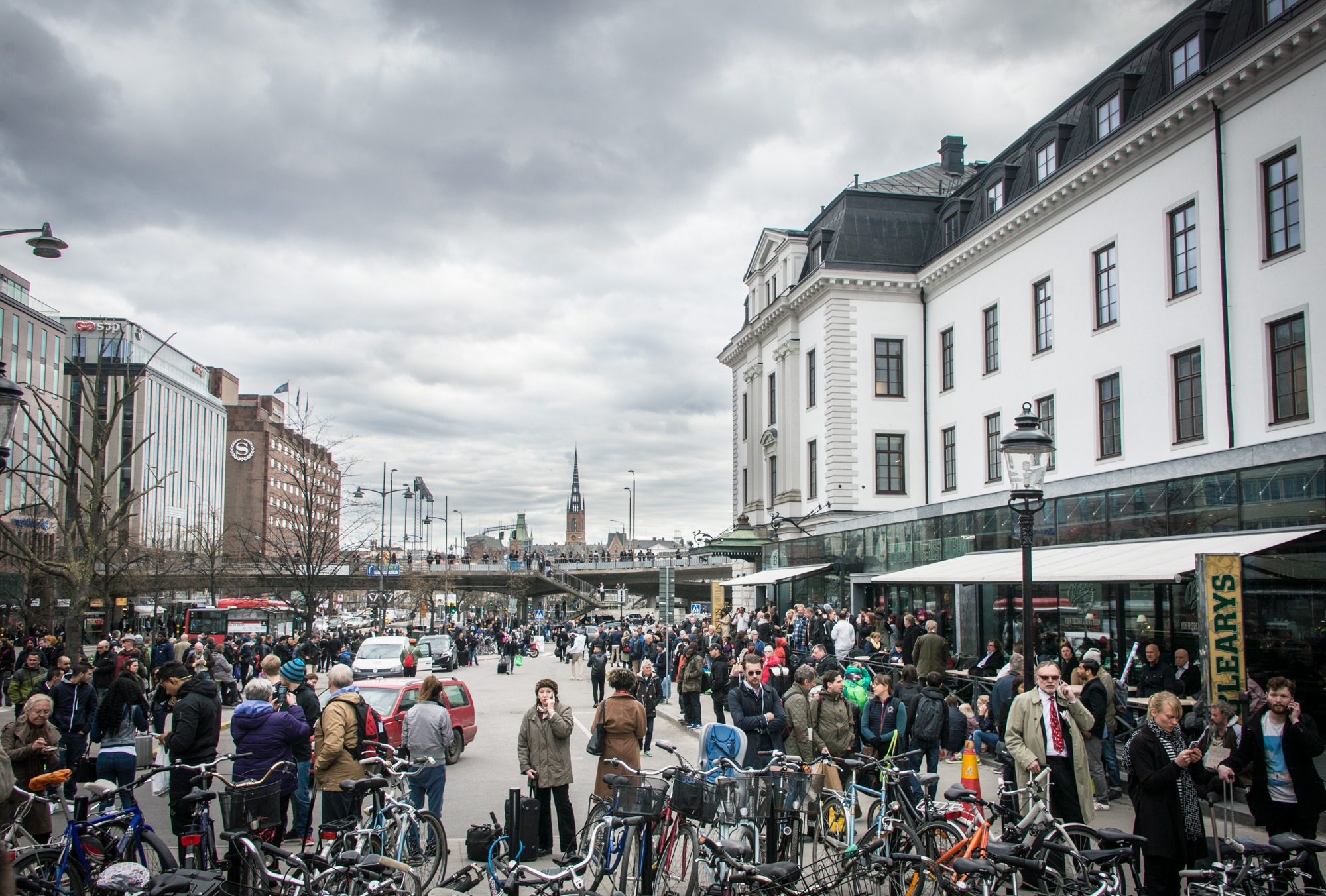 The terrorist attack in Stockholm April 7, 2017.